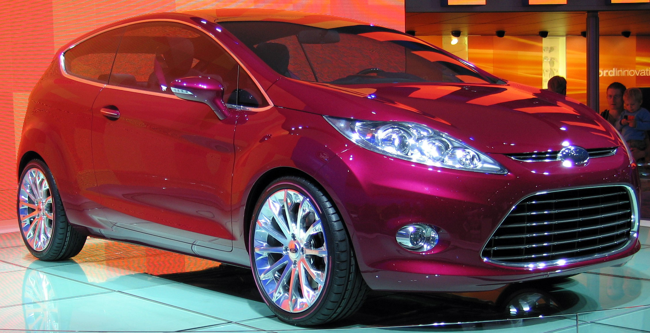 Ford Verve Concept at the IAA 2007